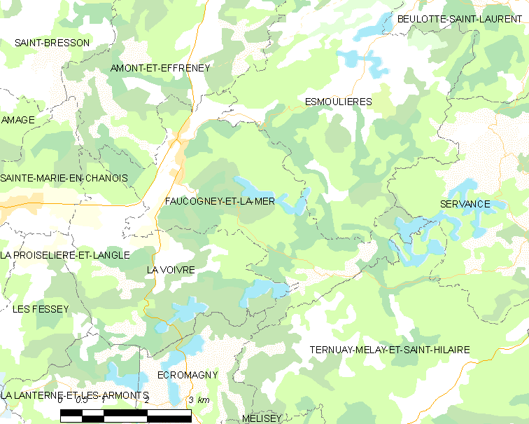 Map of French municipality